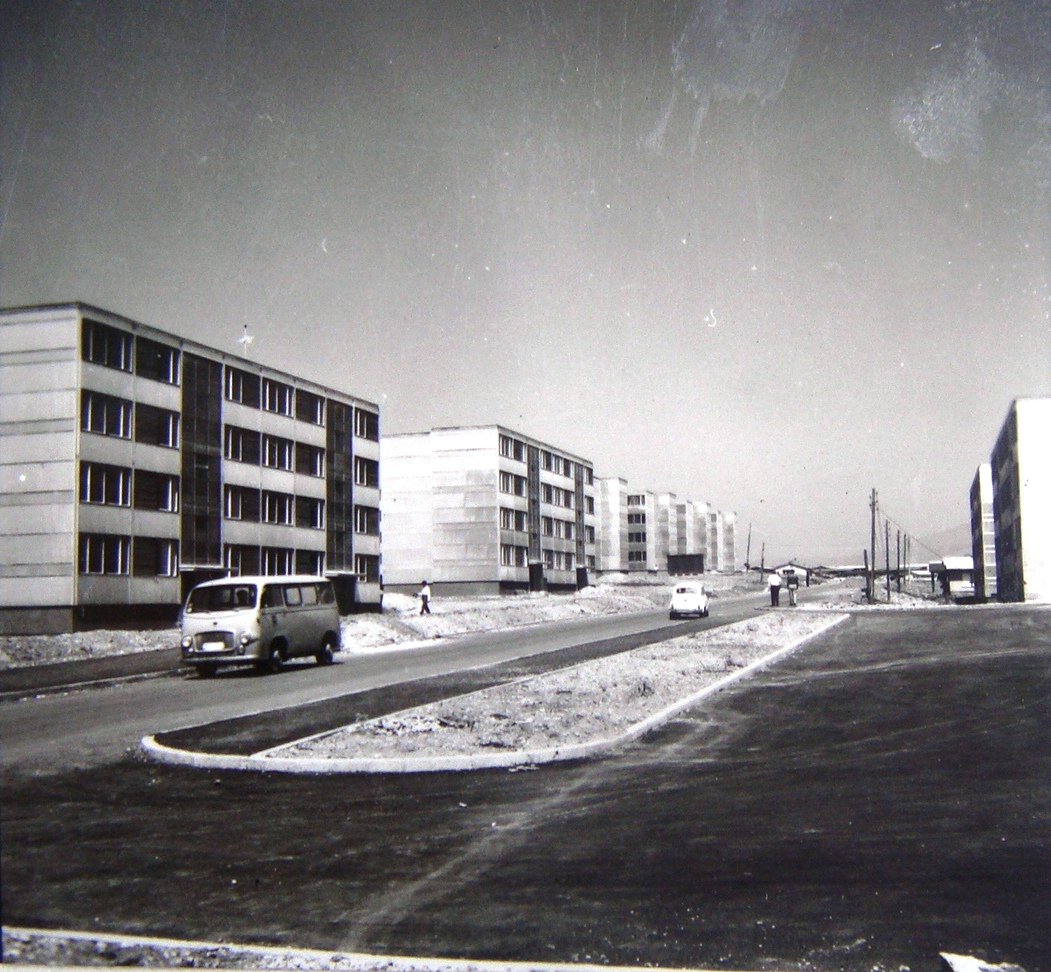 1963 Skopje earthquake: Settlement Zelezara, newly built prefabricated buildings (29 December 1963) This media file is produced by Wikipedian in Residence in Category:Wikipedian in Residence at DARM in 2016.